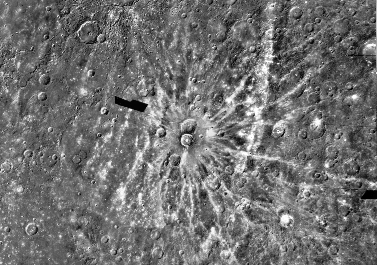 Mariner 10 mosaic showing the bright ray crater Degas on Mercury. The crater is 45 km in diameter, and the mosaic was produced from images taken during the first and third encounters. North is up. (Mariner 10, Atlas of Mercury, Fig. 3-E) Location & Time Information Date/Time (UT): N/A Distance/Range (km): N/A Central Latitude/Longitude (deg): N/A Orbit(s): Flyby Imaging Information Area or Feature Type: crater, ray crater Instrument: GEC 1-inch vidicon tube (TV) camera Instrument Resolution (pixels): 700 x 832, 8 bit Instrument Field of View (deg): 0.38 x 0.47 Filter: N/A Illumination Incidence Angle (deg): N/A Phase Angle (deg): N/A Instrument Look Direction: N/A Surface Emission Angle (deg): N/A Ordering Information CD-ROM Volume: N/A NASA Image ID number: Fig. 3-E, Atlas of Mercury Other Image ID number: N/A NSSDC Data Set ID (Photo): 73-085A-01S NSSDC Data Set ID (CD): N/A Other ID: N/A